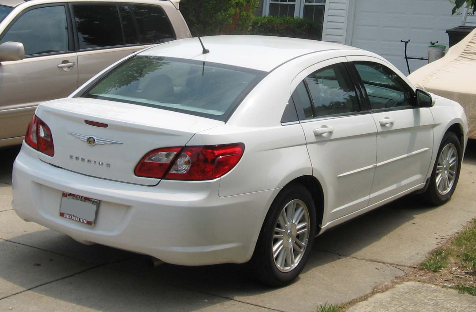 2007 Chrysler Sebring photographed in USA.